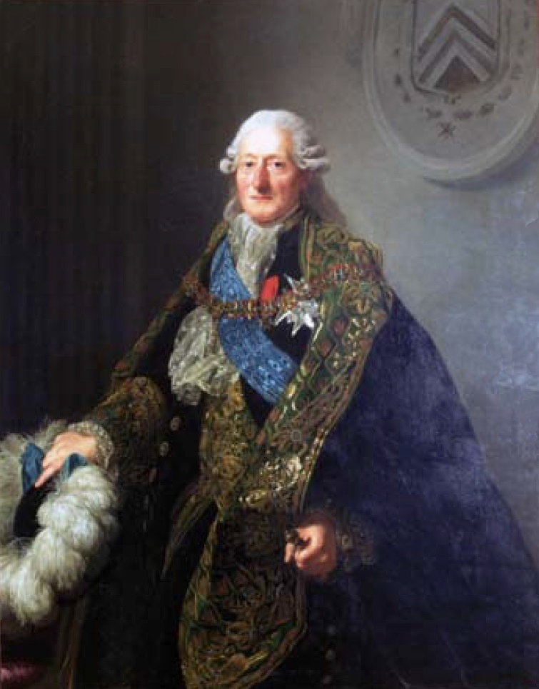 Portrait of Ludwig August Augustin von Affry